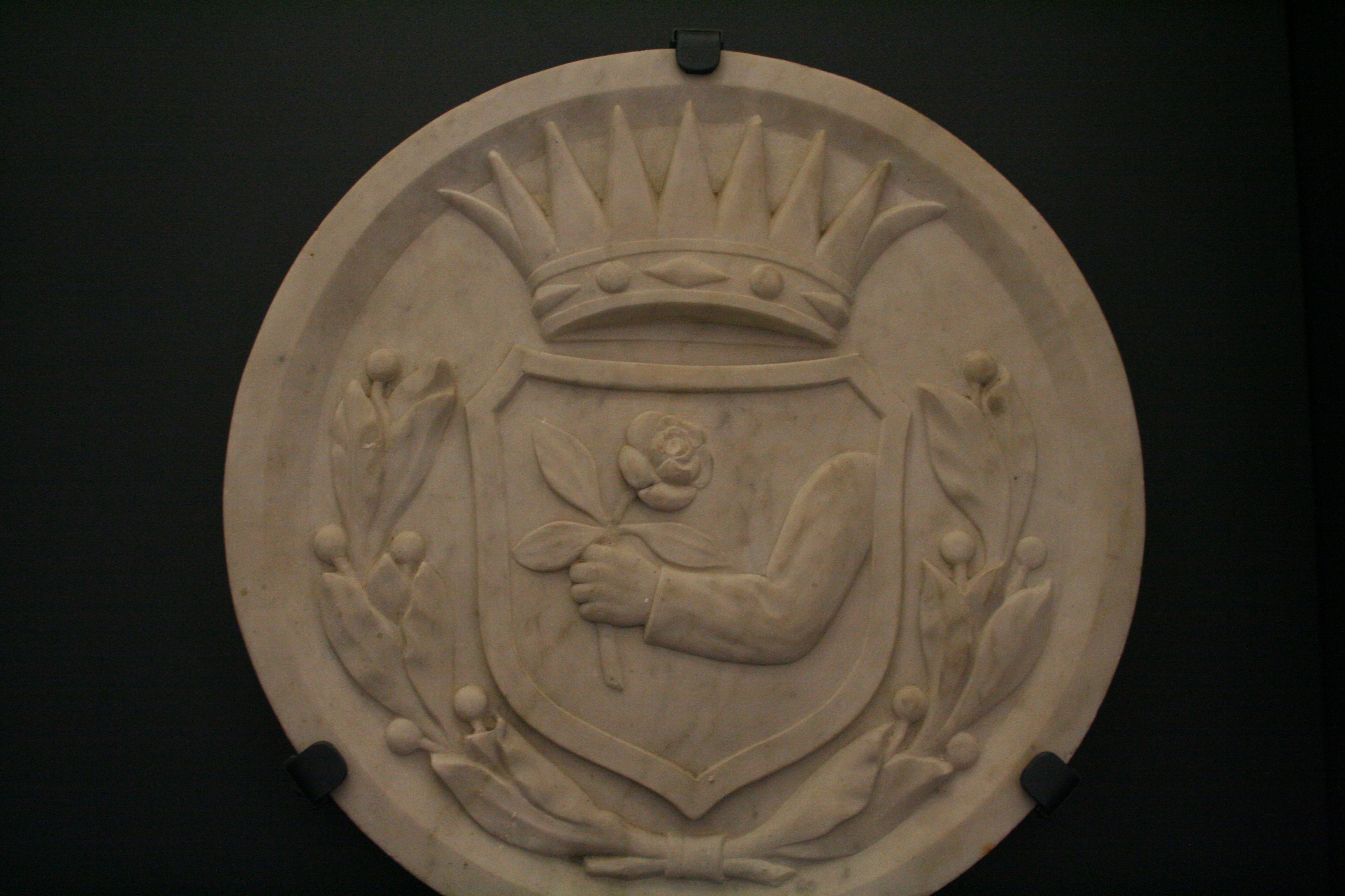 Civic Museum